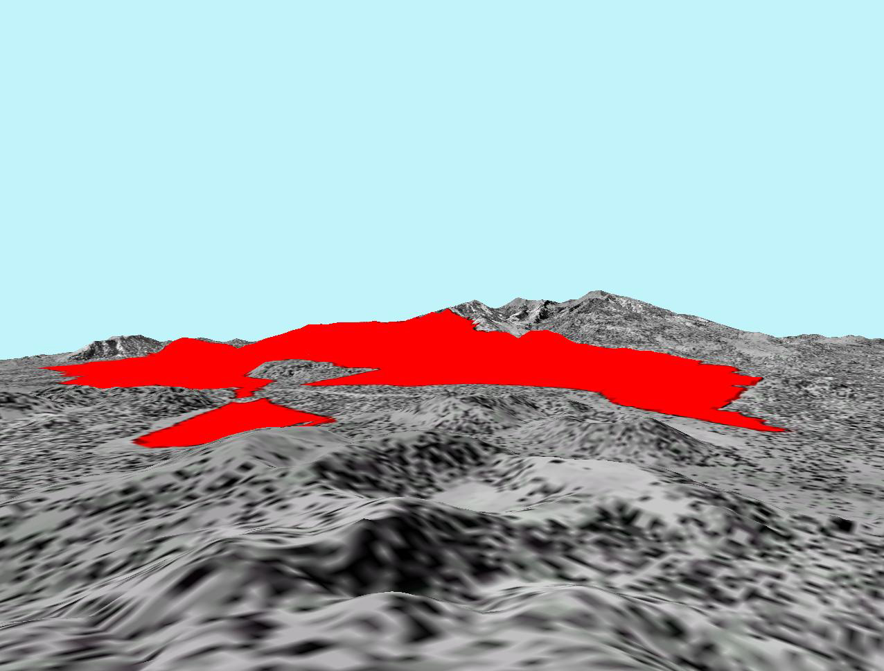 Perspective view from O'Leary Peak.Created with Global Mapper and USGS DEM, DRG, and DOQ data. Fire damage data based on maps published 2010-06-25 by the Southwest Area Incident Management Team: and measurements are only a general approximation. Boundaries may increase as fire progresses. For accurate information, see official incident reporting site